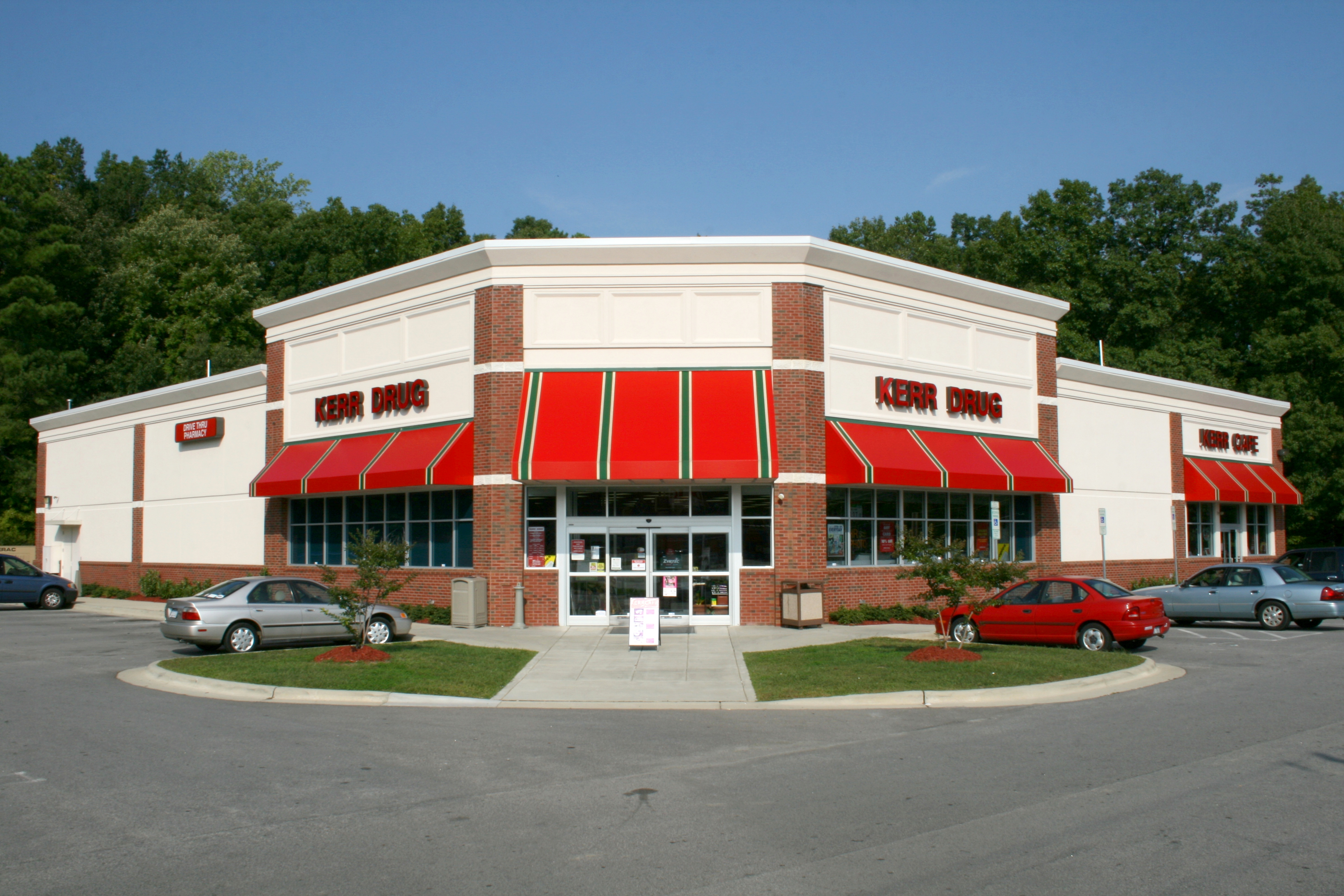 Kerr Drug pharmacy with a new Kerr Cafe on U.S. Route 70 in Hillsborough, North Carolina.